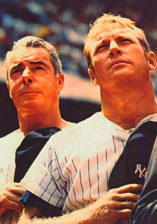 Professional baseball players Joe DiMaggio (left) and Mickey Mantle (right)